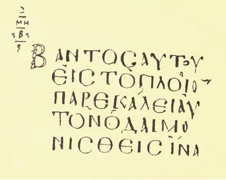 facsimile edition of the codex, with text Mark 5:18, published by Tregelles in 1856